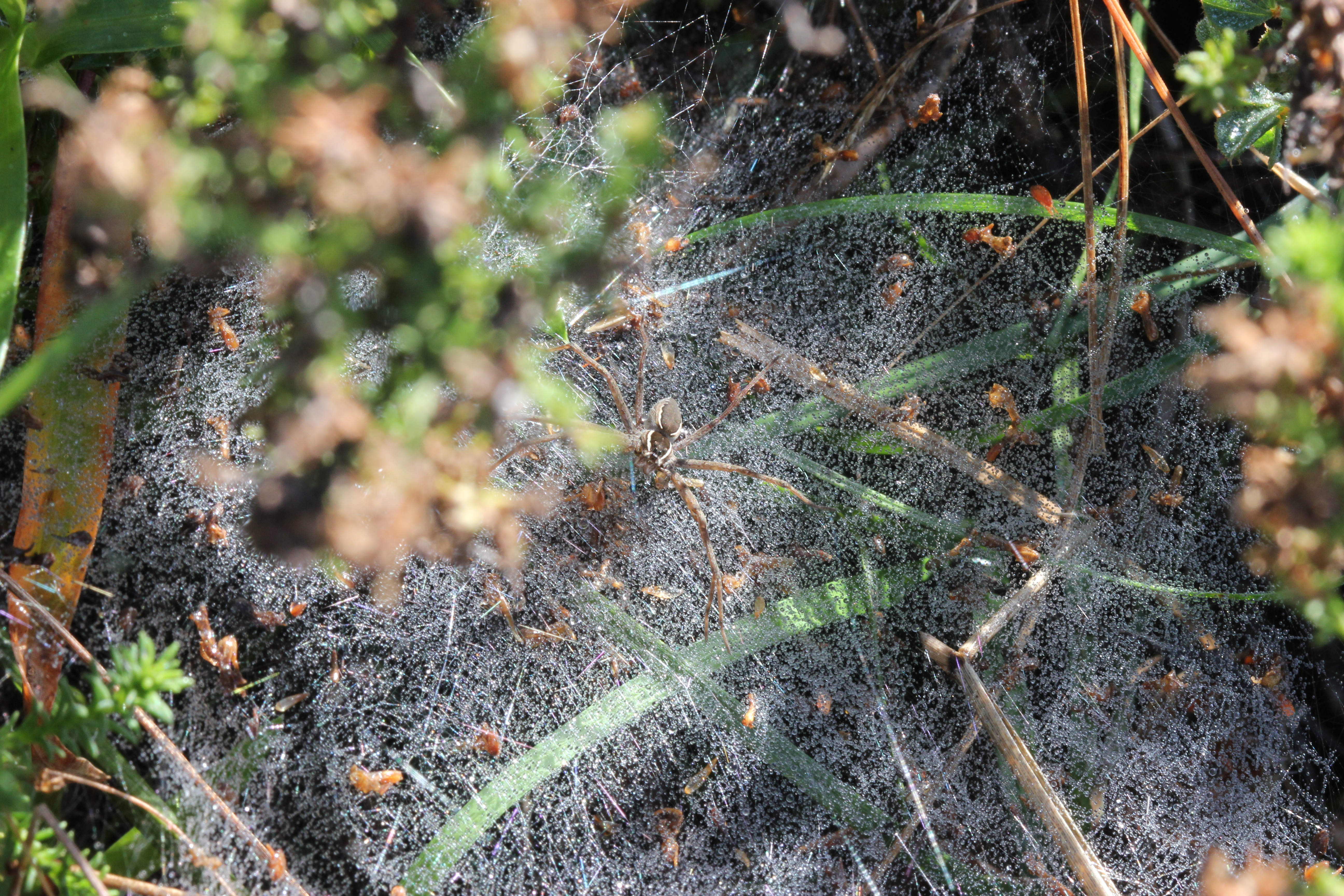 Probably Euprosthenopsis pulchella, common in Southwestern South Africa. One of the Pisauridae that build sheet webs with funnel-web retreats